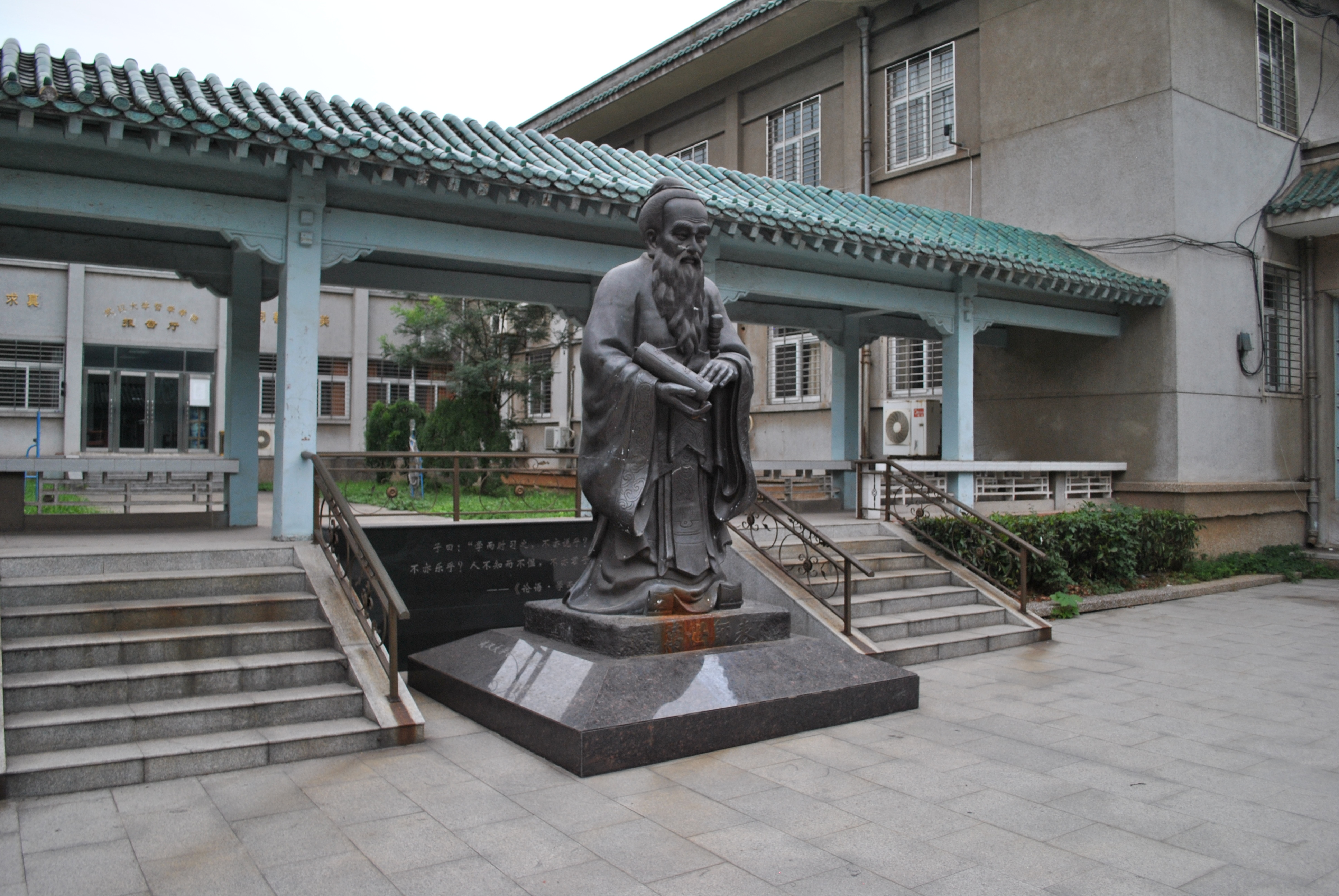 the Confucius statute inside wuhan university dept of philosophy